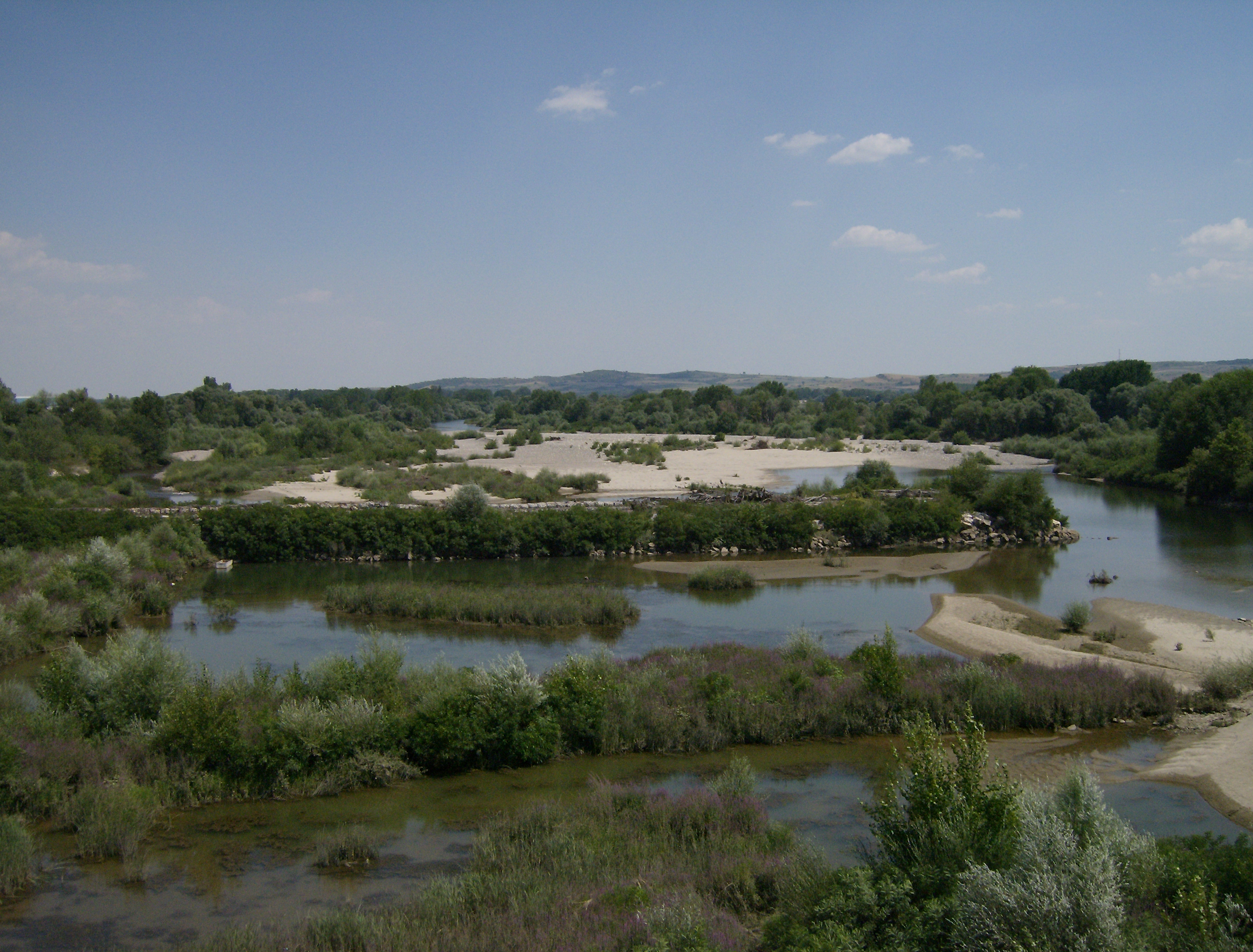 Arda between Komara and Kyprinos